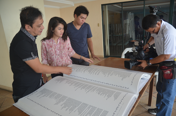 ABC-5 TV crew inspecting the giant epic book